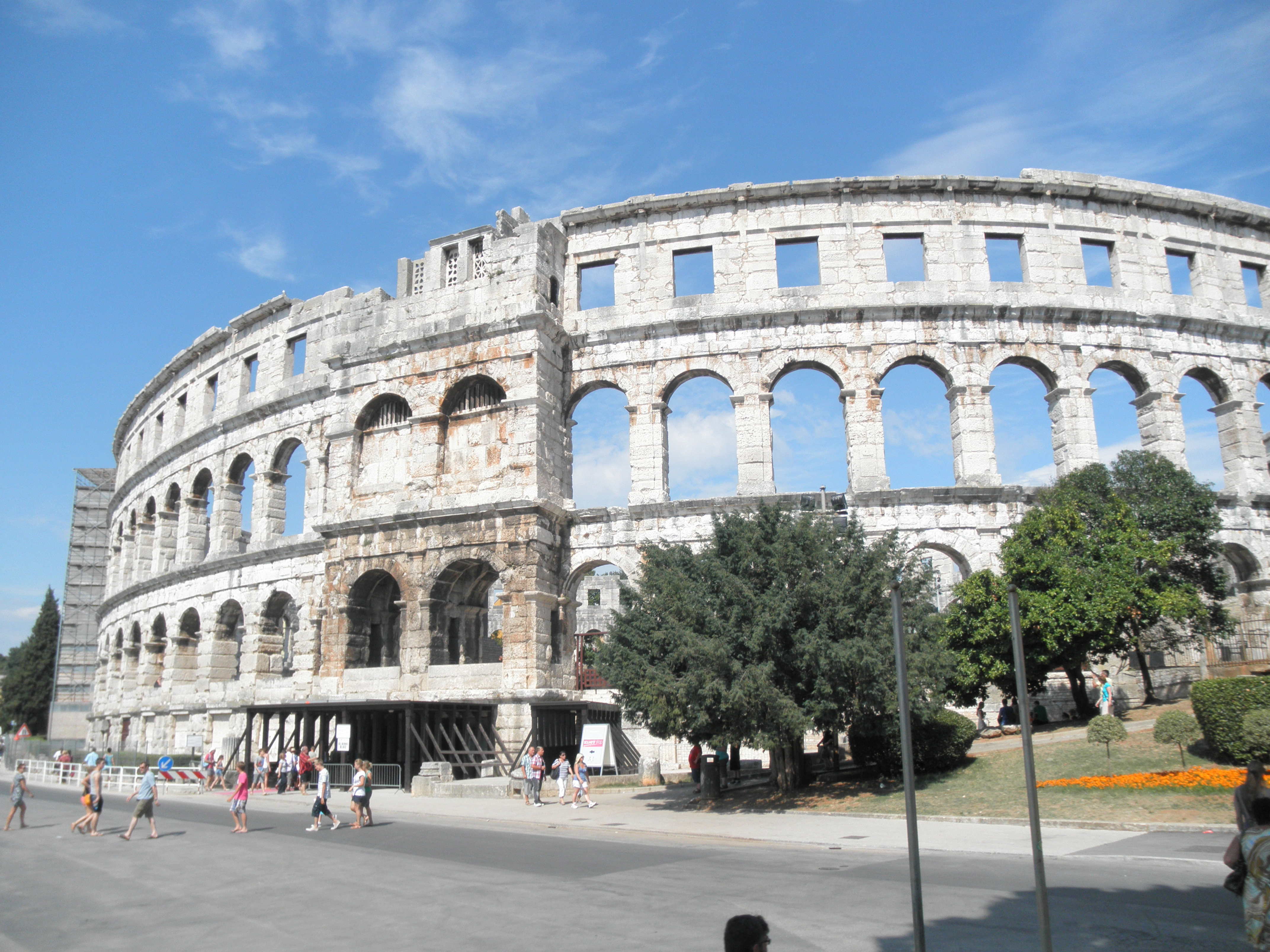 The Roman Amphitheatre of Pula in Istria